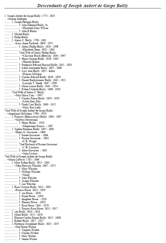 Descendents of Joseph Bailly (Created using Family Tree Maker)